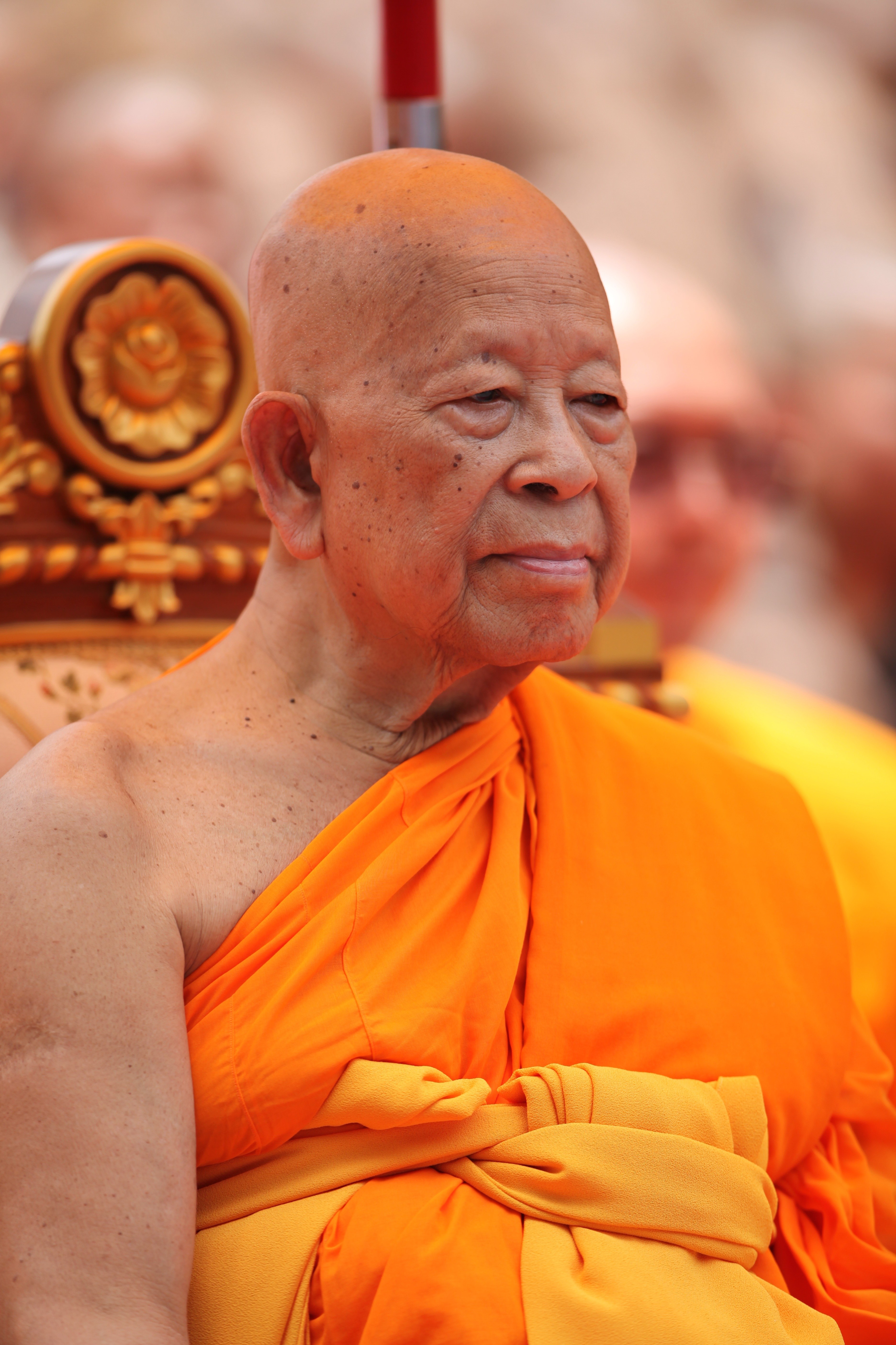 Somdet Chuang Varapunno sitting